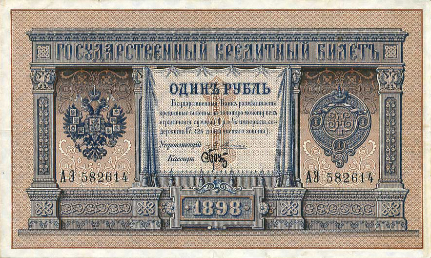 Russian Empire 1 ruble banknote, 1898 version, signed by Brut (Russian: Брут) and Pleske (Russian: Плеске); known as “Brut's ruble” (Russian: «брутовский» рубль). Front side.